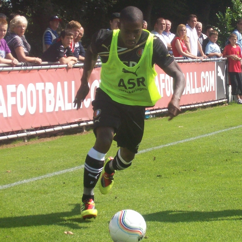 Ruben Schaken seizoen 2011/2012